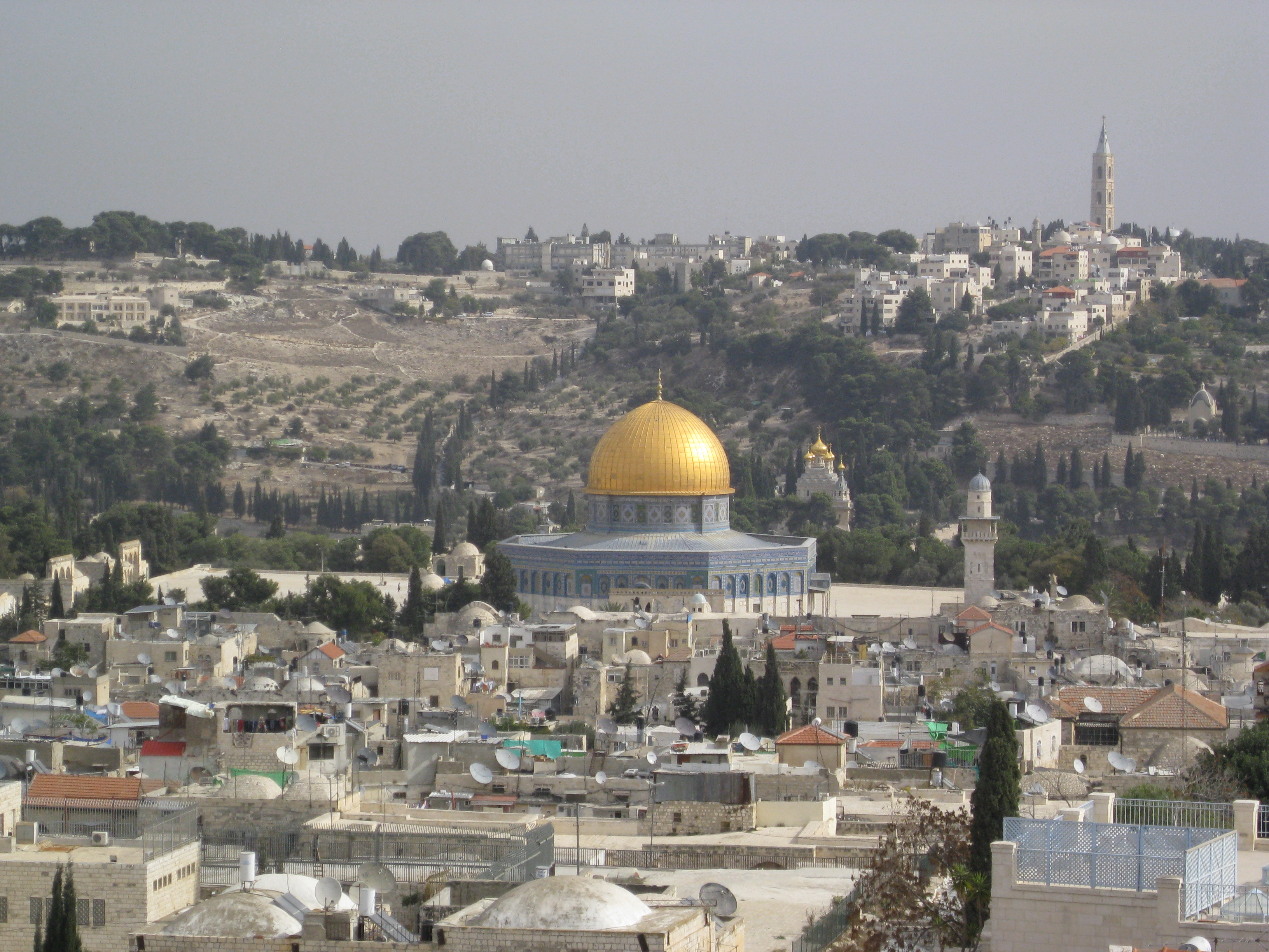 Dome of the Rock, Jerusalem. The Temple Mount, known in Hebrew as Har haBáyit (Hebrew: הַר הַבַּיִת) or as Har haMoria (Hebrew: הַר הַמוריה) and in Arabic as the Haram al-Sharif (Arabic: الحرم القدسي الشريف, al-haram al-qudsī ash-sharīf), the Noble Sanctuary, is one of the most important religious sites in the Old City of Jerusalem. It has been used as a religious site for thousands of years. At least four religious traditions are known to have made use of the Temple Mount: Judaism, Christianity, Roman religion, and Islam. The present site is dominated by three monumental structures from the early Umayyad period: the al-Aqsa Mosque, the Dome of the Rock and the Dome of the Chain. Walls dating back to the late Byzantine and early Islamic periods cut through the flanks of the Mount. It can be ascended via four gates, with guard posts of Israeli police in the vicinity of each.